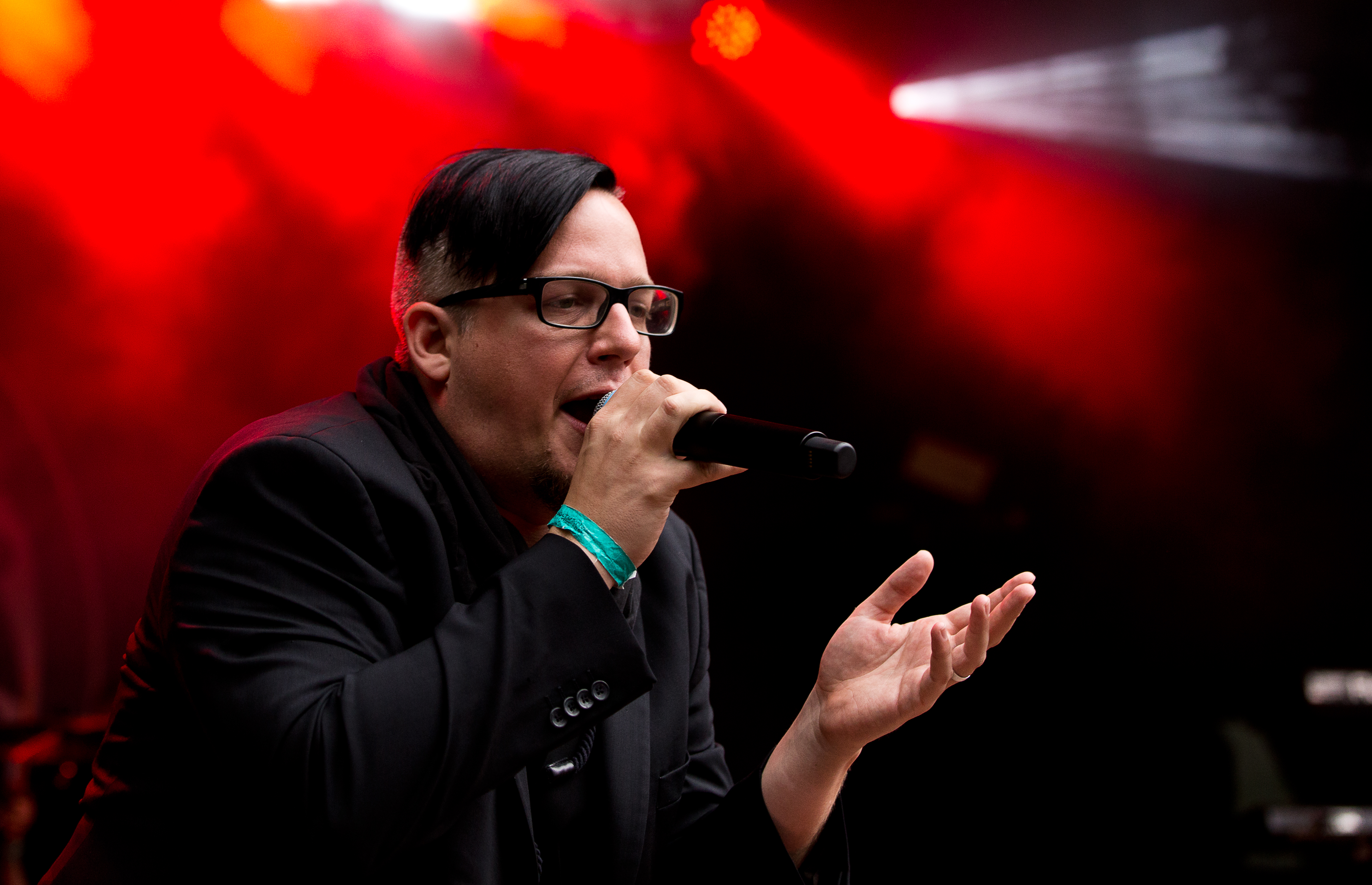 The Austrian electro rock band L'Âme Immortelle at the Nocturnal Culture Night 11 2016 in Deutzen/Germany.